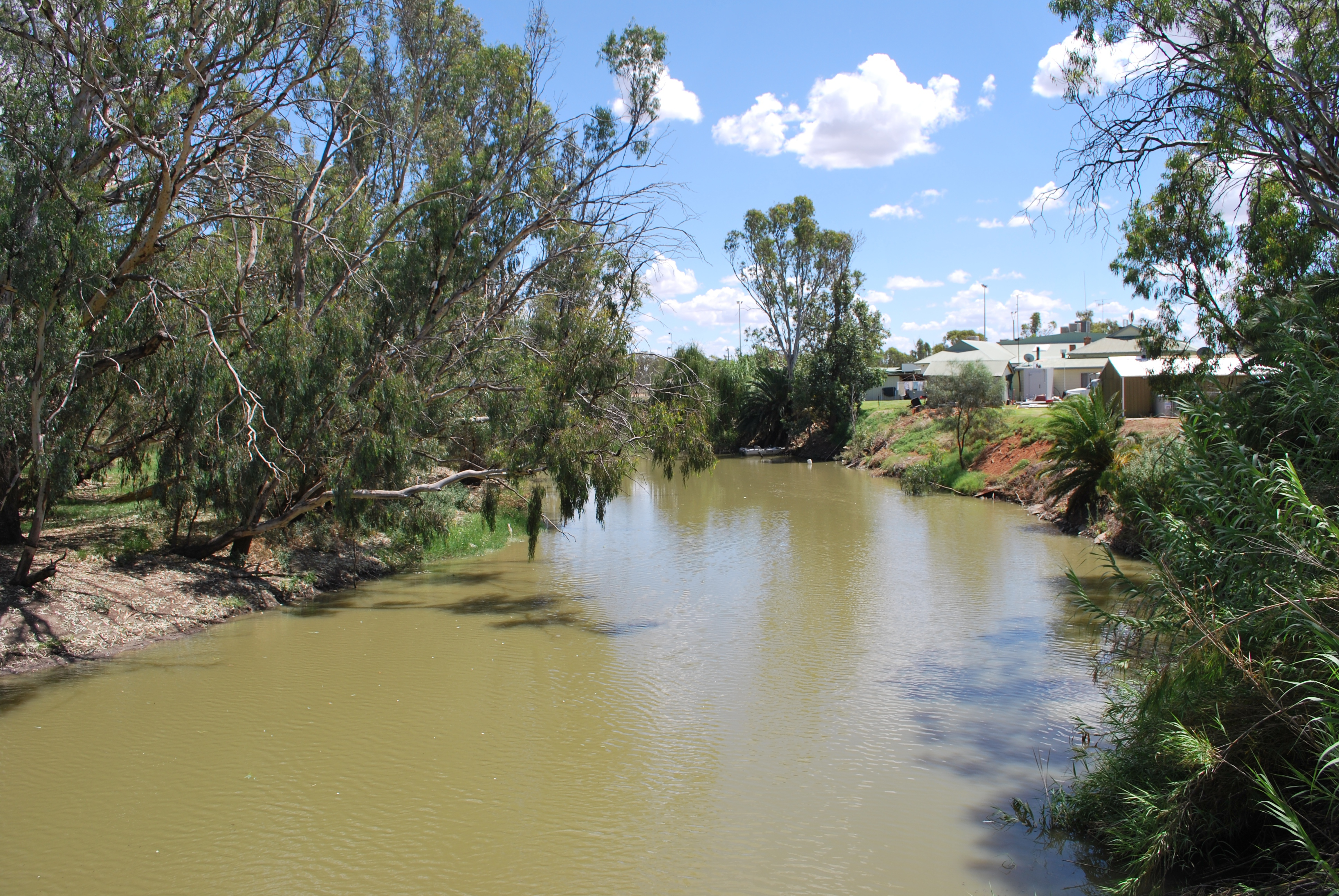 Lachlan River at Hillston, New South Wales